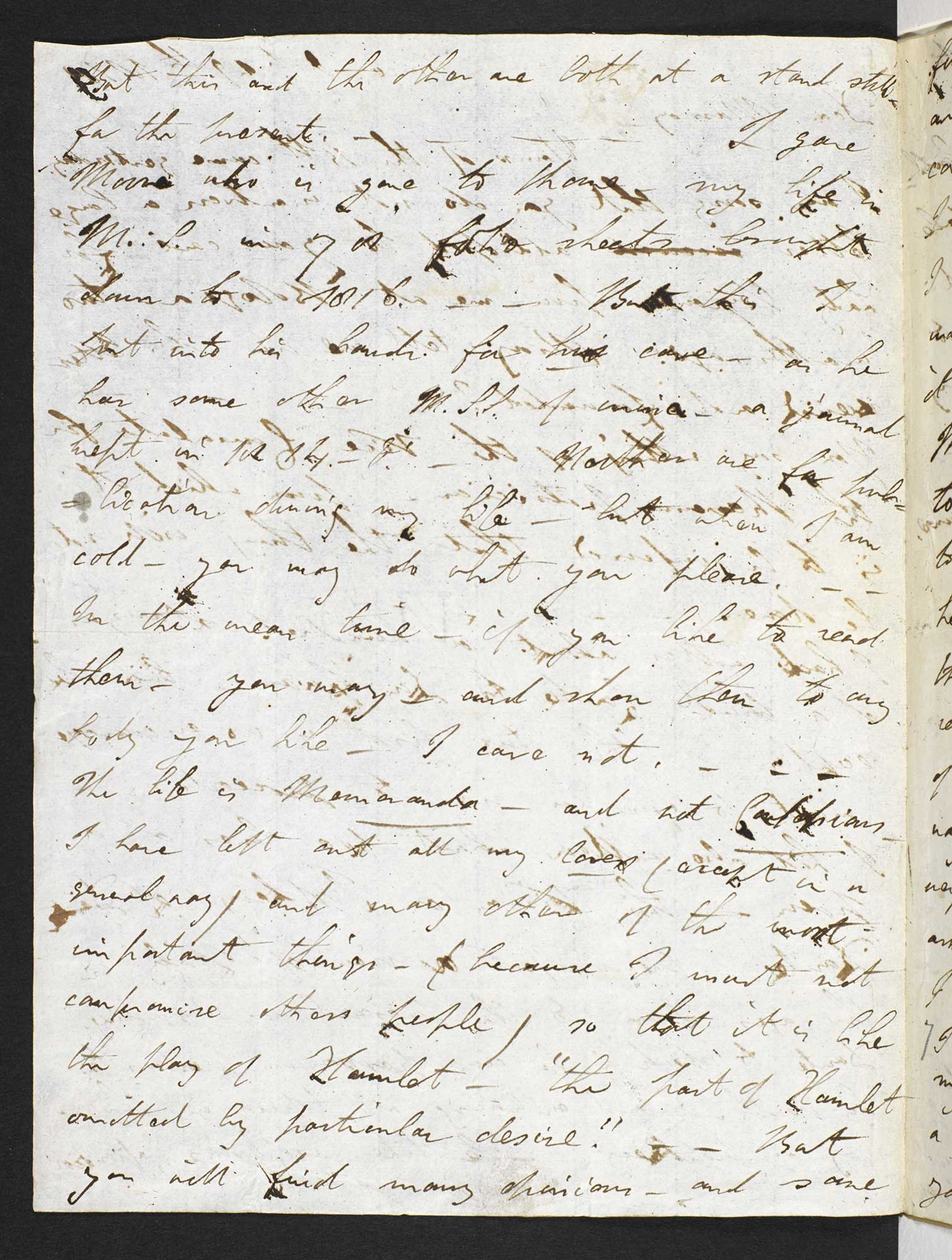 Letter from Lord Byron to his publisher John Murray